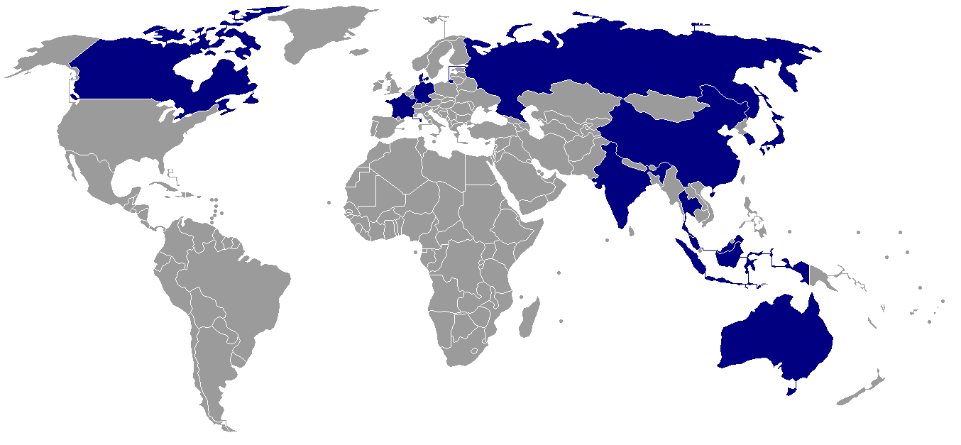 Participating nations in Uber Cup 2018.